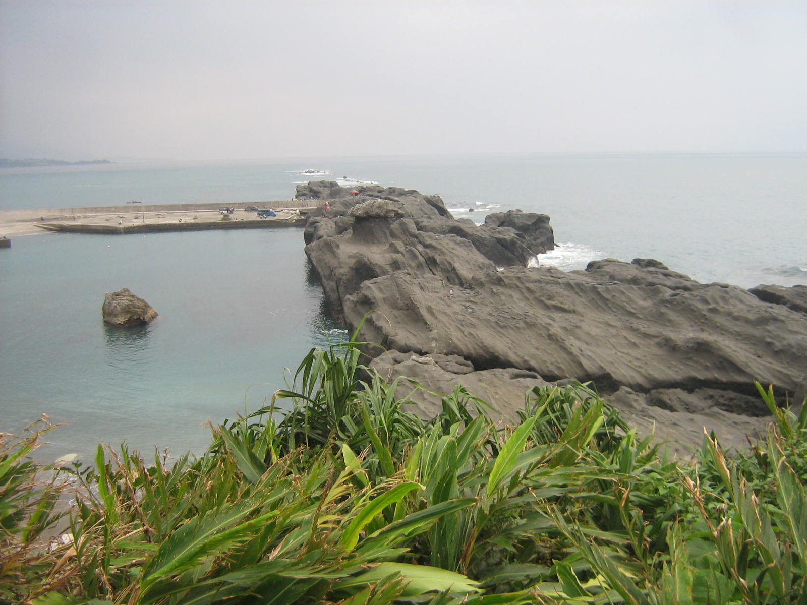 Stone Umbrella (Shihyusan), Chenggong Township, Taitung County, Taiwan